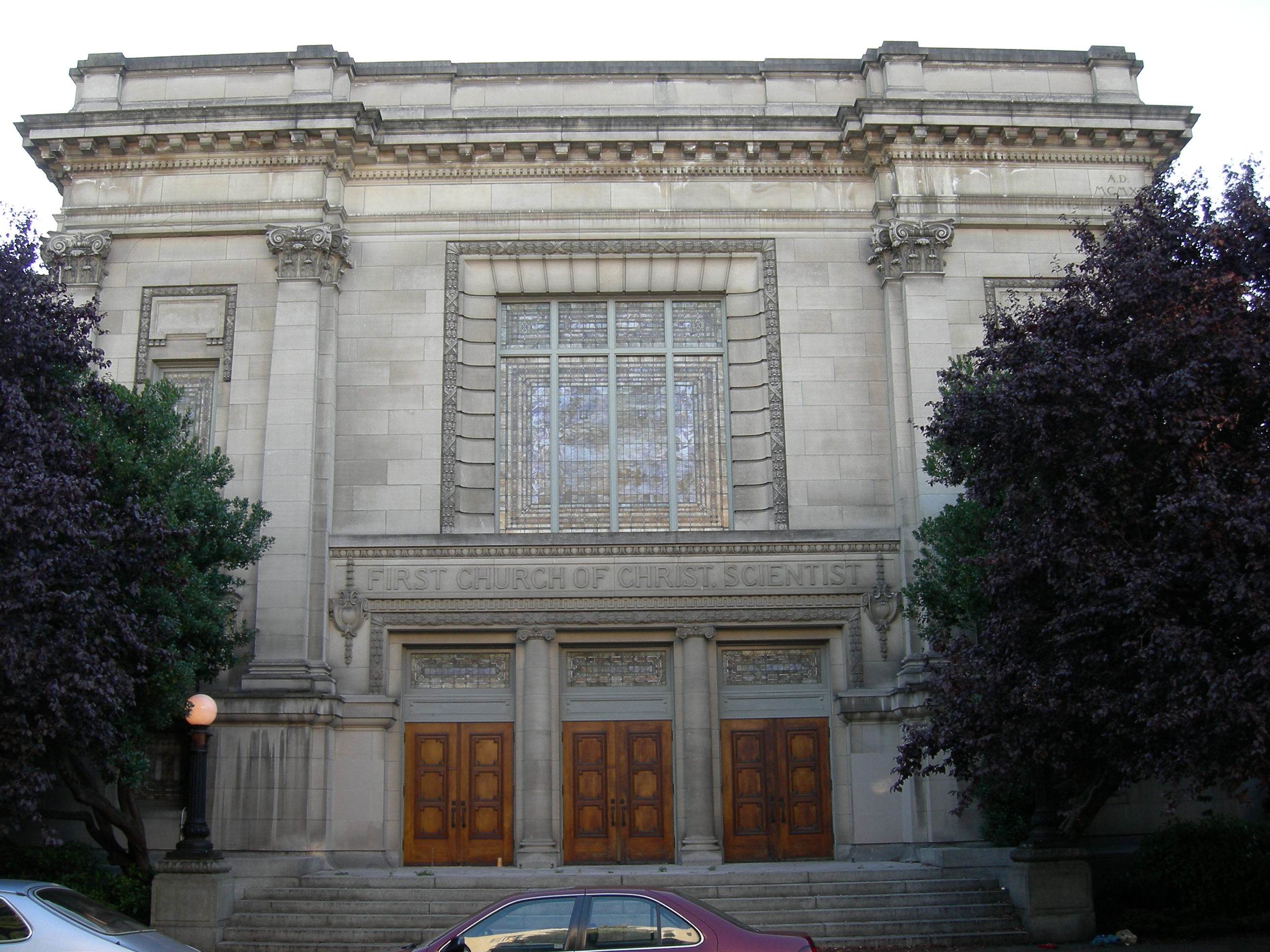 The former First Church of Christ Scientist, Capitol Hill, Seattle, Washington, currently undergoing conversion to condominium apartments. The building is an official Seattle landmark.